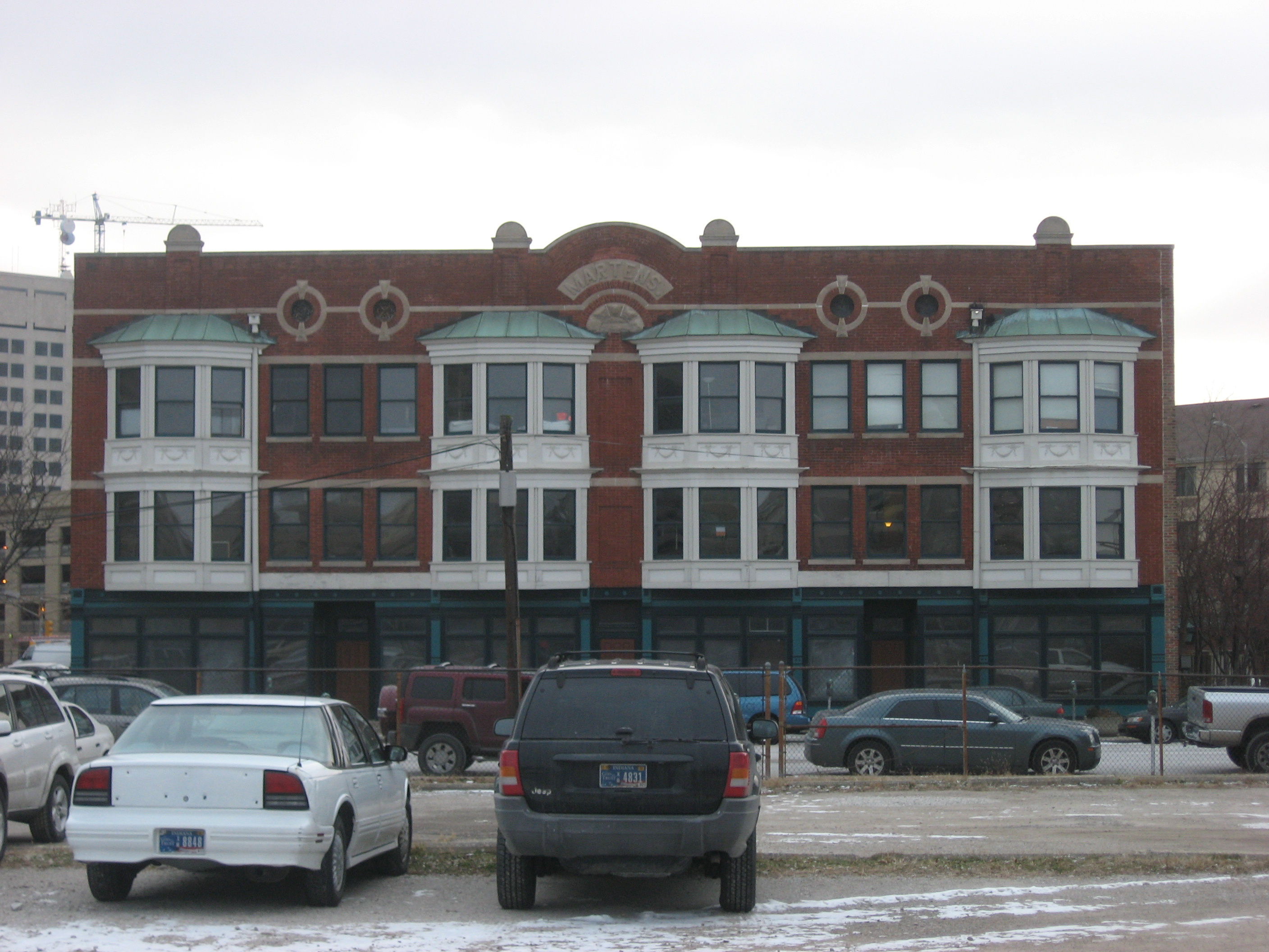 Front of The Martens, located at 348-356 Indiana Avenue in Indianapolis, Indiana, United States. Built in 1900, it is listed on the National Register of Historic Places as one of the "Apartments and Flats of Downtown Indianapolis Thematic Resources".